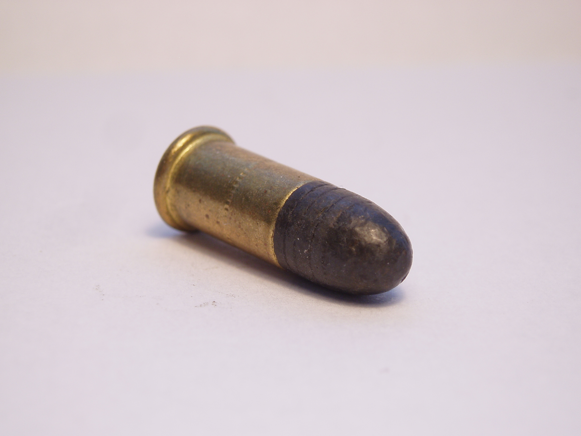 .22 CB short pistol cartridge.